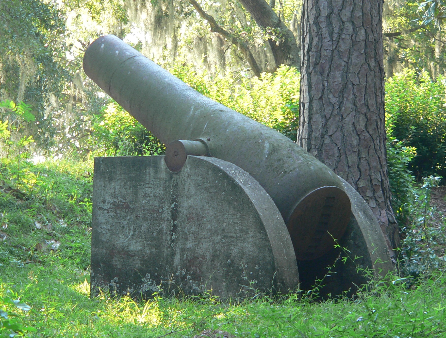 Columbiad at Battery White, located on Winyah Bay south of Georgetown, South Carolina.